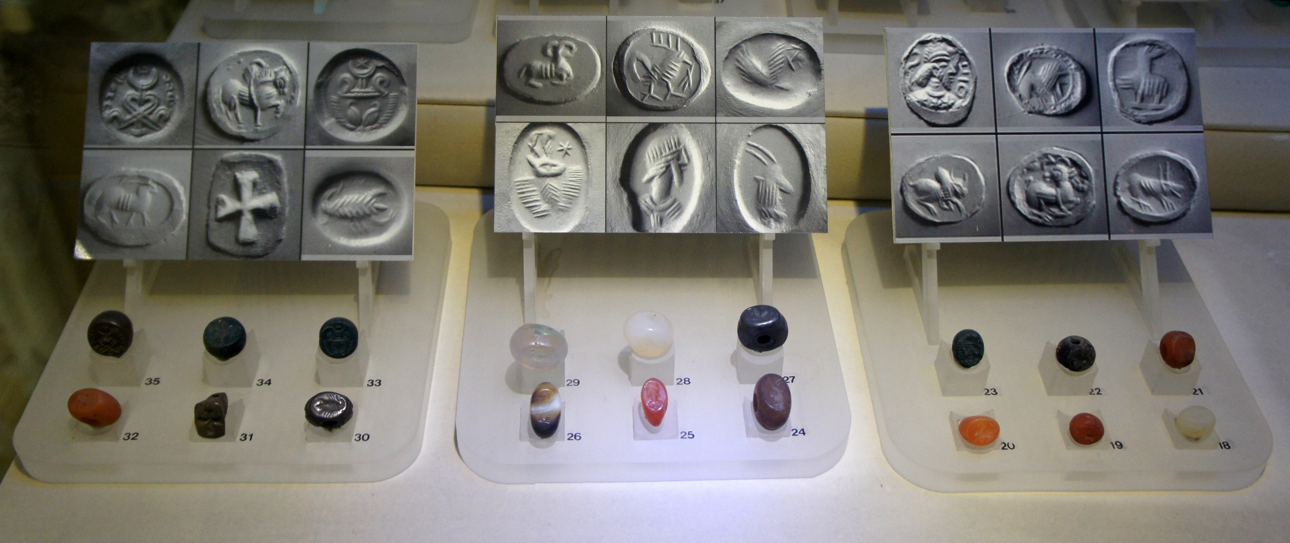 Persian seals from Sasanian era at Mohsen Moghaddam Museum in Tehran. Photo by Alireza Fard Asadi / Persian Dutch Network